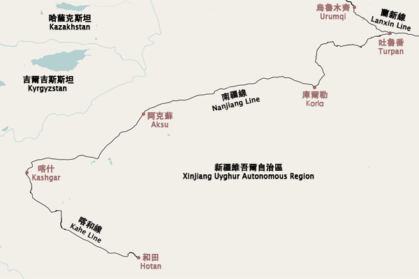 A map showing the southern branch of the Lanxin Railway (Turpan-Kashgar), with the new (2010) Kashgar-Hotan extension This map may be incomplete, and may contain errors. Don't rely solely on it for navigation.